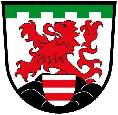 Coat of Arms of Steinhöfel, Part of Steinhöfel